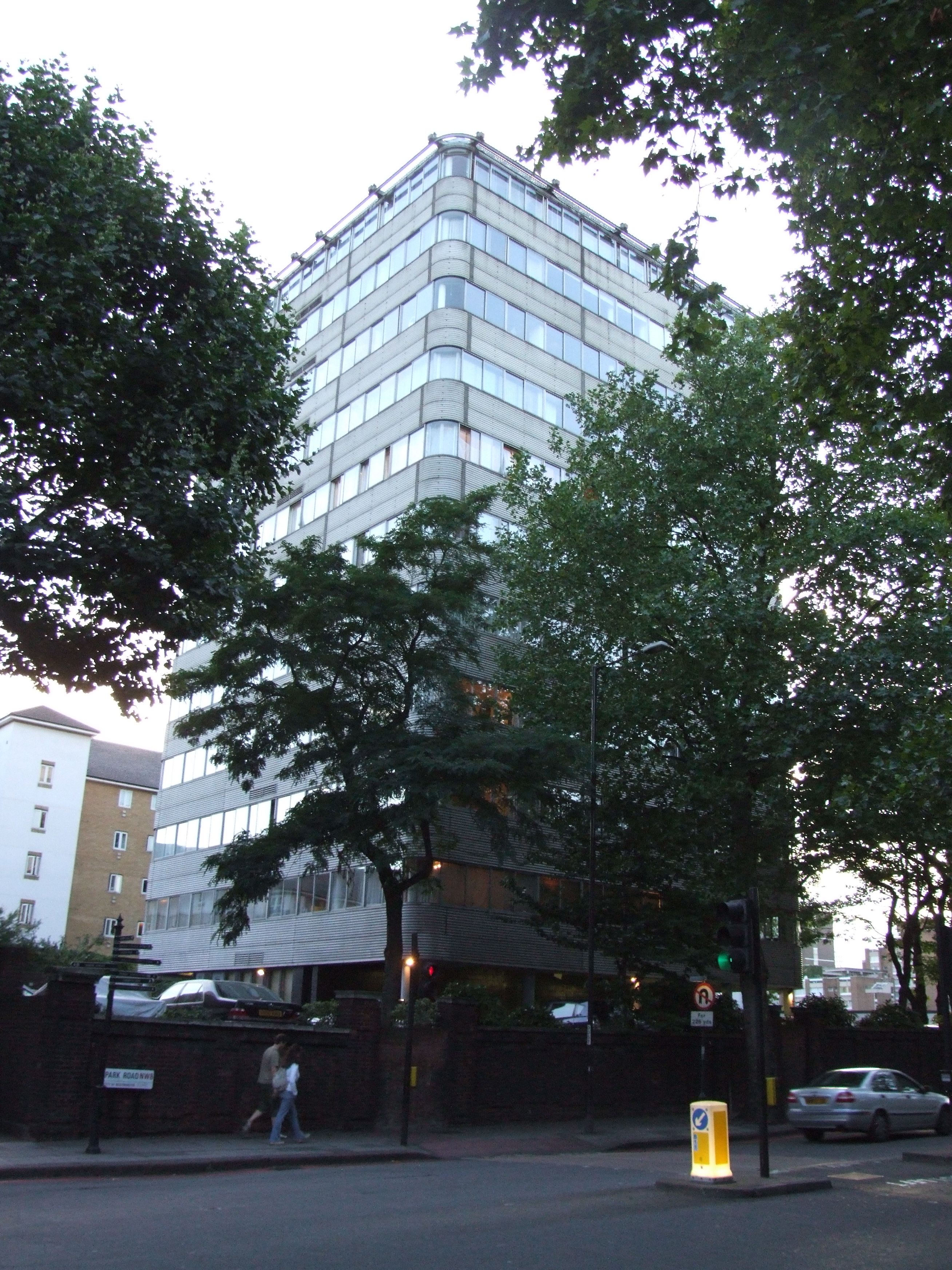 Photo of 125 Park Road, London, NW8